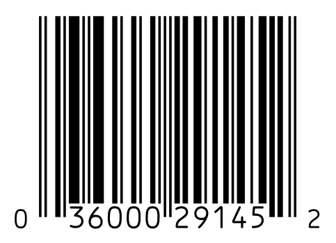 UPC-A barcode image; NOTE: Happens to be the same barcode as the product "Presidential Power Therapeutic Muscle Soak- Minerals Bath Salt", "Kleenex Expressions White Facial Tissue, Unscented 145pk", and "Irene & Her Latin Jazz Band - ... A Song For You".